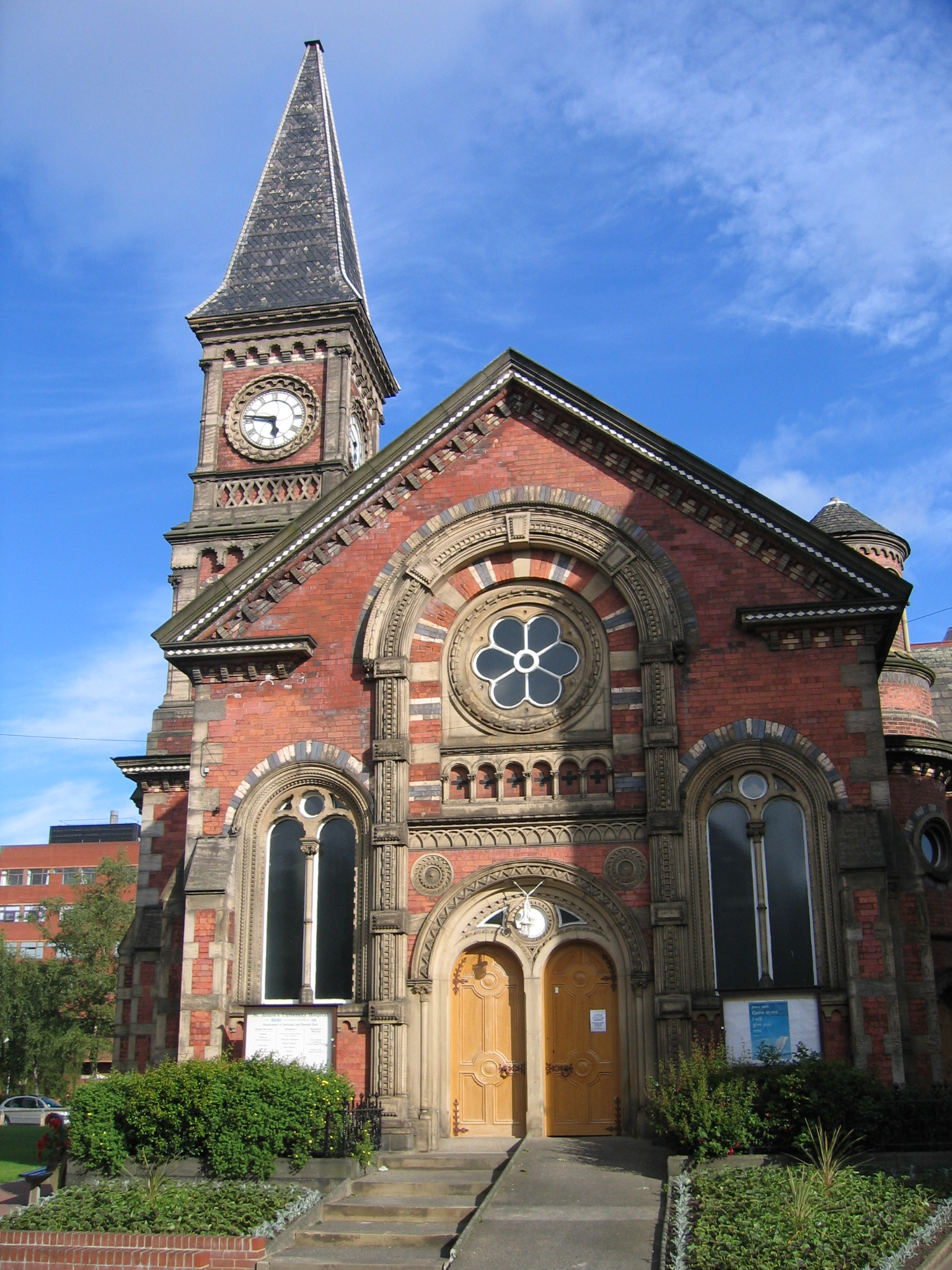 Chapel of St James's University Hospital, Beckett Street, Leeds, West Yorkshire